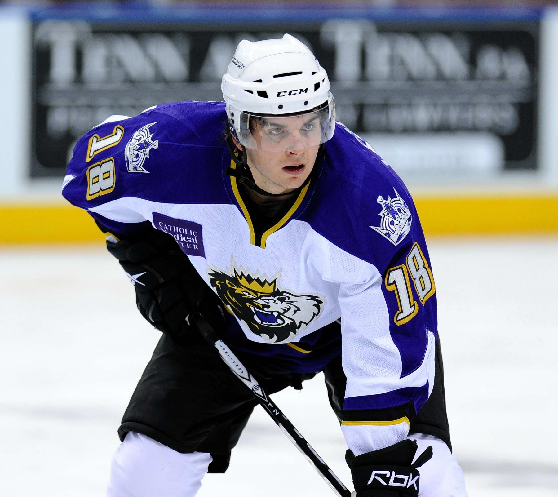 Andrei Loktionov (Norfolk Admirals vs Manchester Monarchs 12/03/10)